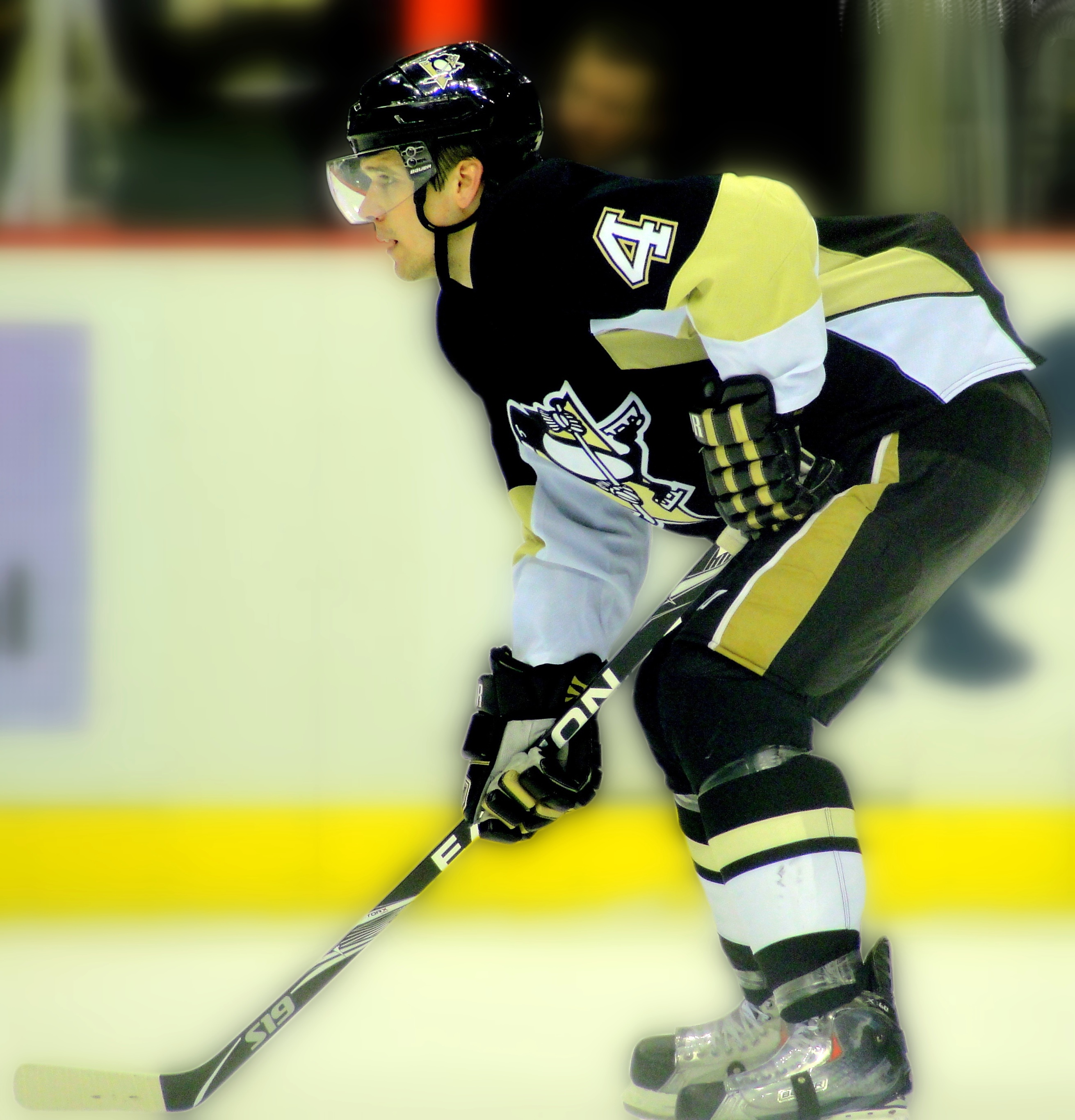 Zbynek Michalek of the Pittsburgh Penguins during a playoff game against the Tampa Bay Lightning at Consol Energy Center in Pittsburgh, PA. April 15, 2011.